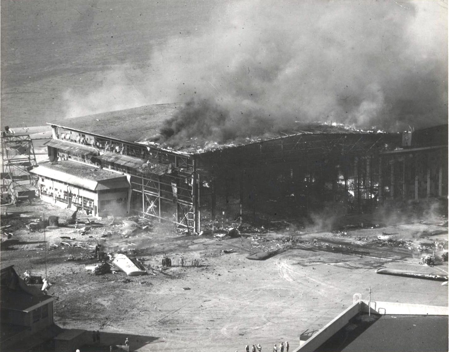 Photograph of hangar and planes damaged and set afire by Japanese bombs at Pearl Harbor. Note the Consolidated PBY patrol bombers, with wrecked wings in the foreground.